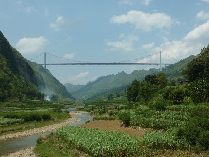 The Balinghe Bridge is a suspension bridge over the Baling River Valley near Guanling City in Guizhou Province of China